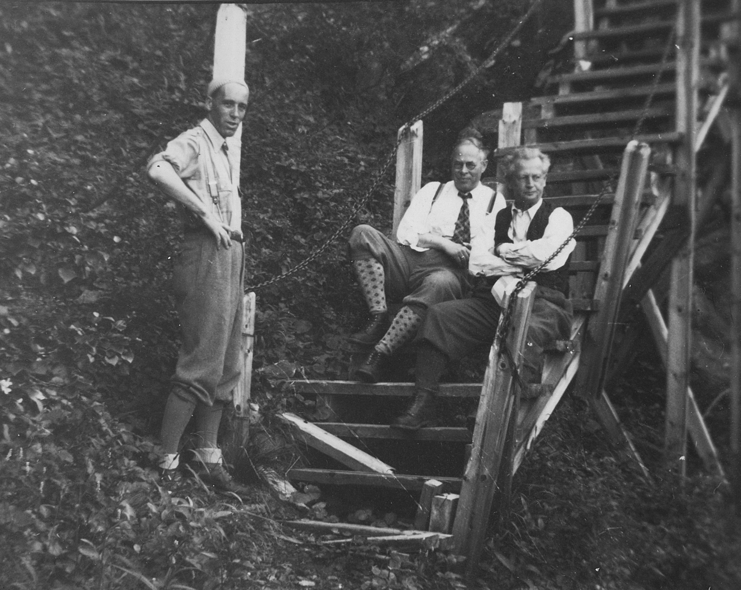 Picture from Thorleif Hoff's album 1, page 33. The album by Thorleif Hoff documenting the construction work with Glomfjord hydropower plant in the 1950s. From left Hans Sperstad, Director General Fredrik Vogt, Building Manager Paul Broch Due. Picture taken August 1951, at Glomfjord in Meløy municipality in the county of Nordland, Norway.